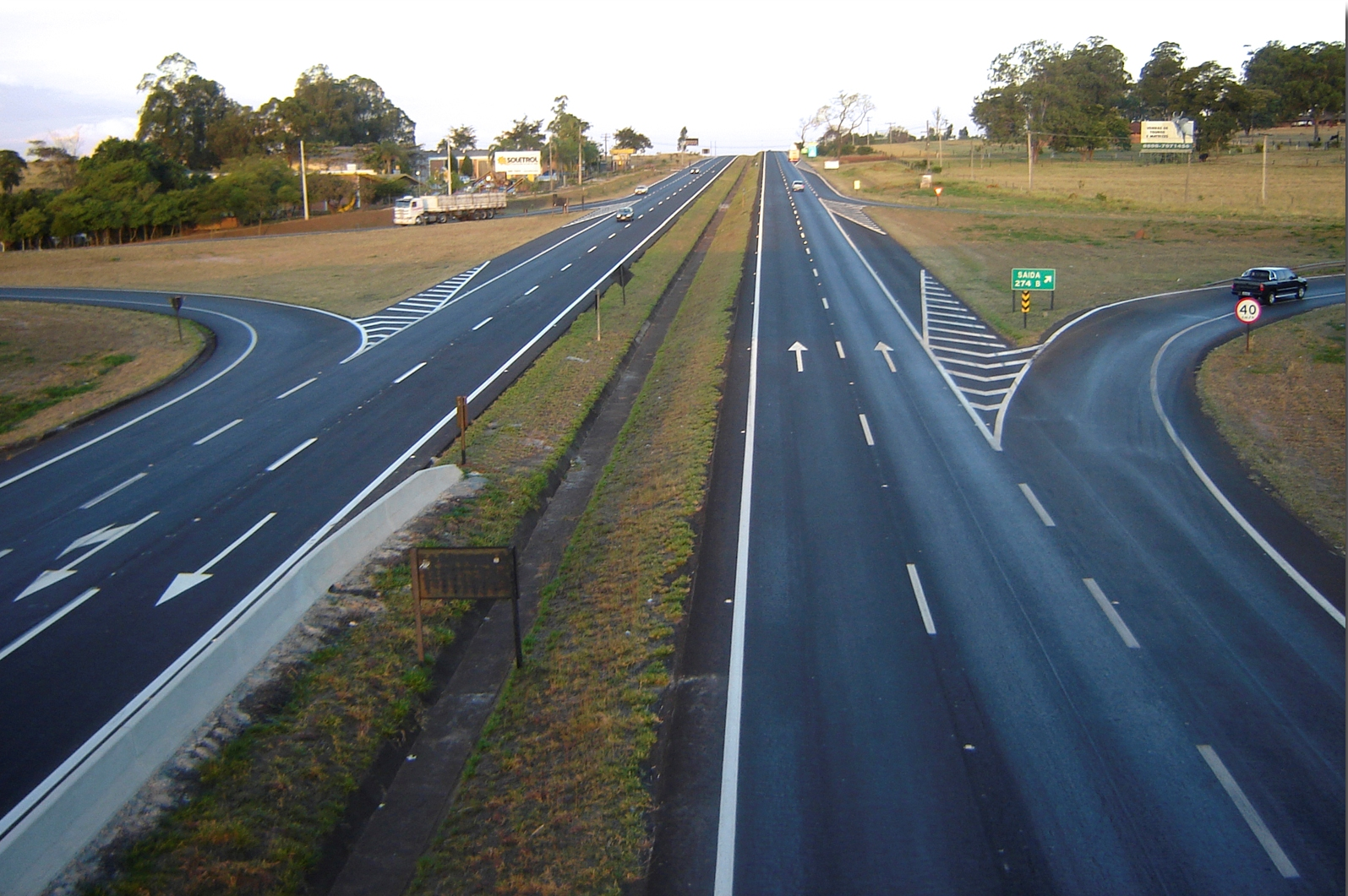 Road SP-255 in São Manuel, São Paulo, Brazil